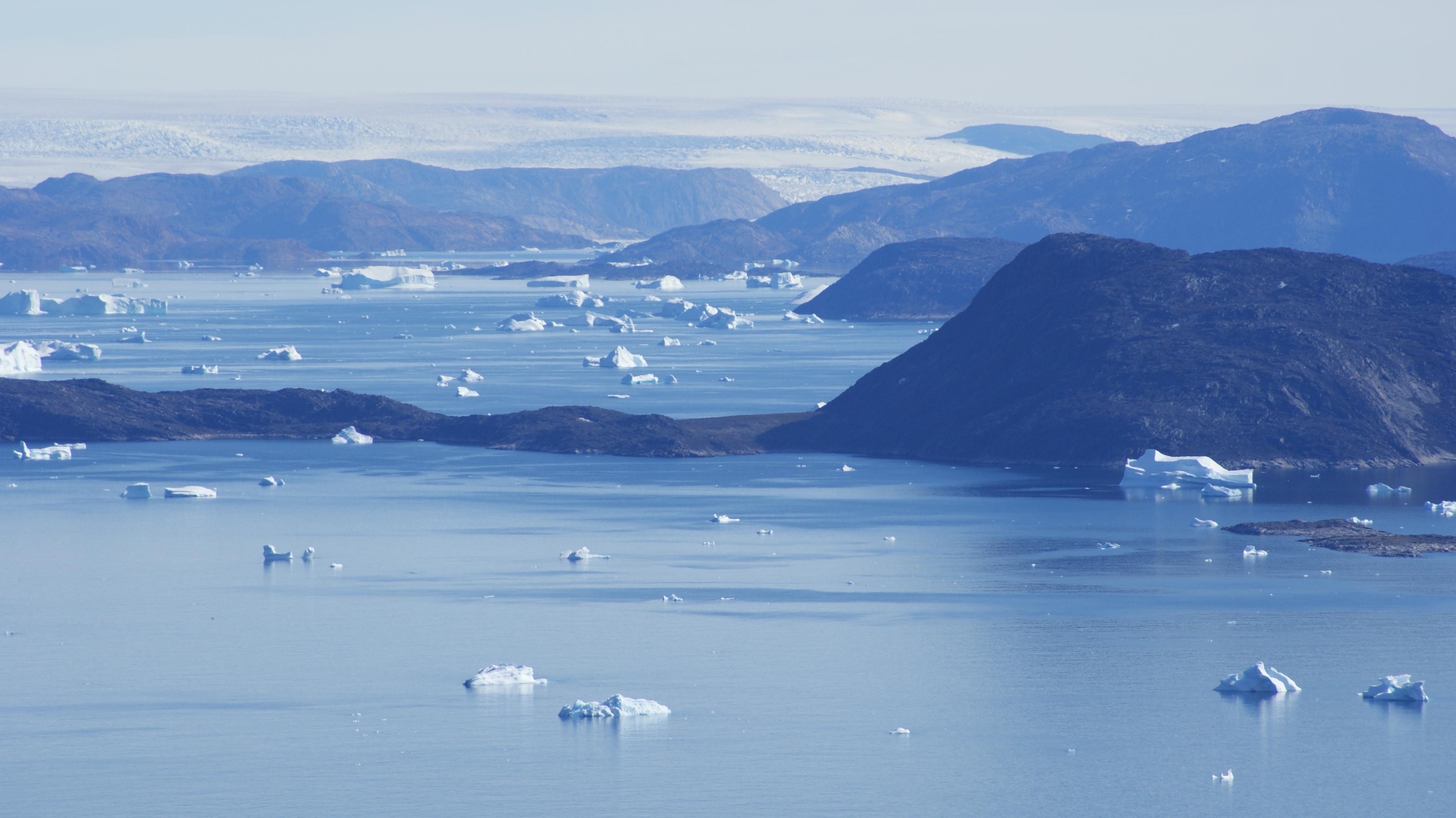 Inner (eastern) Sugar Loaf Bay, Upernavik Archipelago, Greenland. Photographed from the ridge of Nuussuaq Peninsula. Greenland Icesheet in the background.